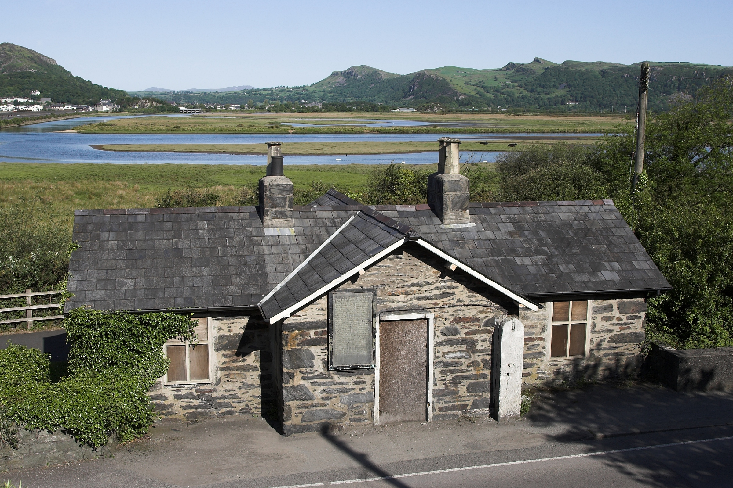 Historic tollhouse at the southern end of Traeth Mawr embankment at Porthmadog, Wales.